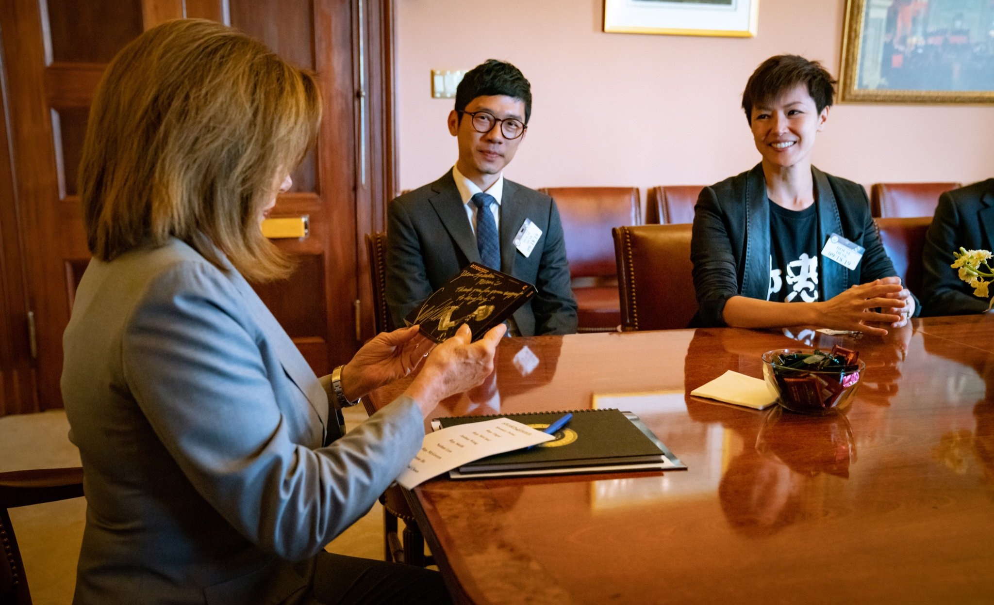 Congress Speaker Nancy Pelosi meets with Hong Kong singer Denise Ho in the US Capitol on September 18, 2019